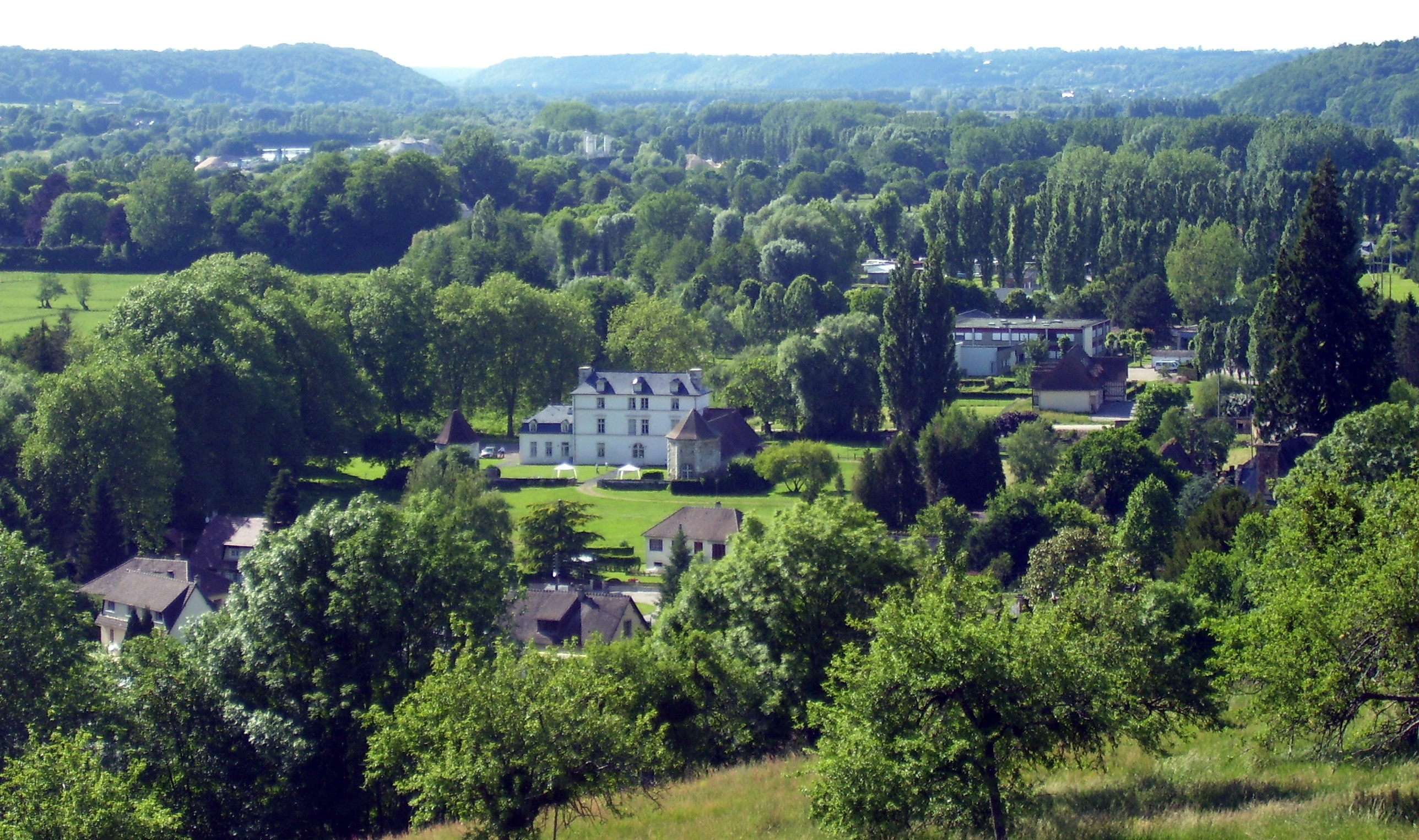 The valley of the Risle and the castle "Château de la Motte" in Montfort-sur-Risle (departement Eure, Normandie, France). The castle was built in the 17th century.